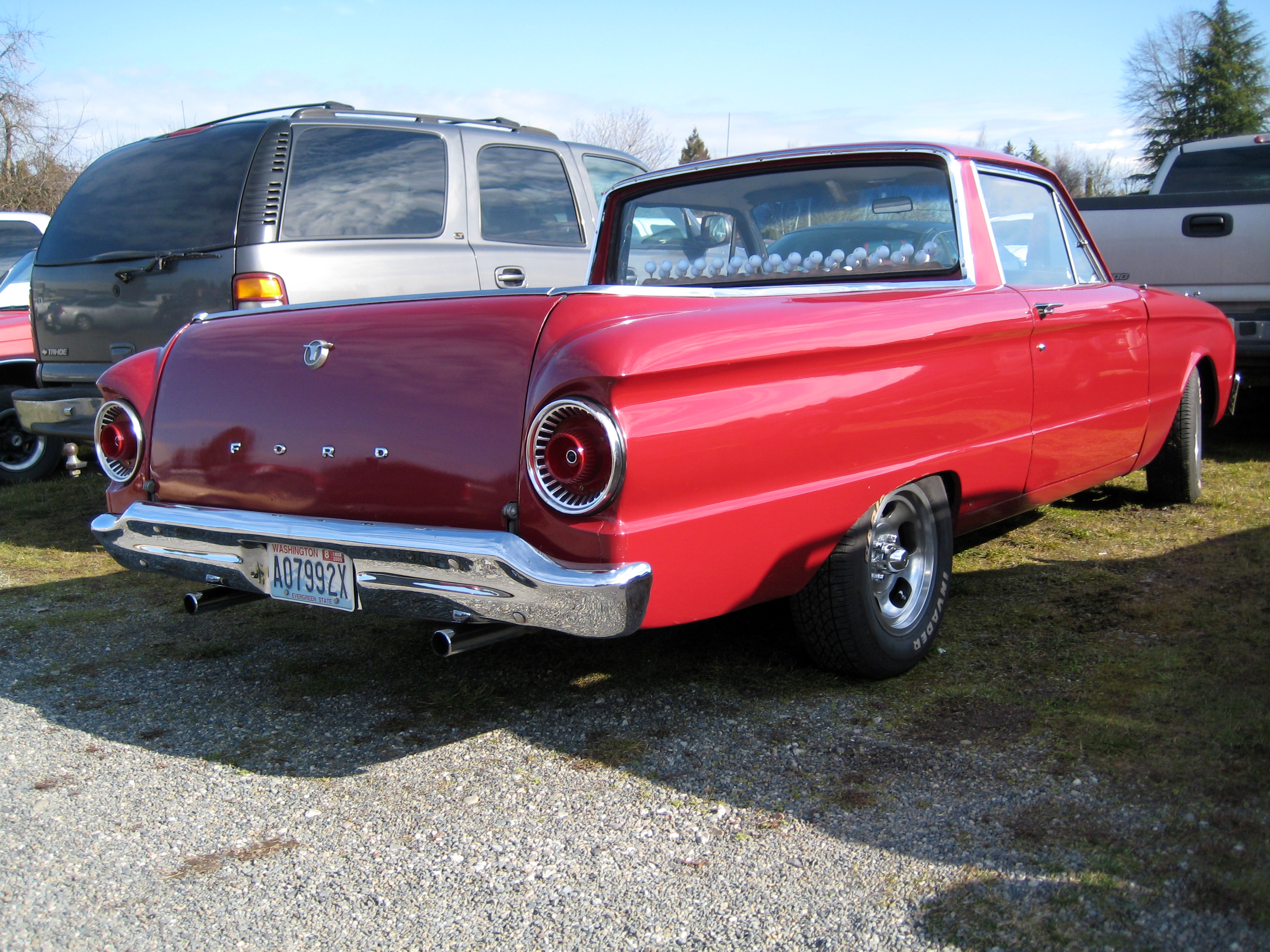 Ford Ranchero sporting wider non-factory rims, nice, understated customisation...